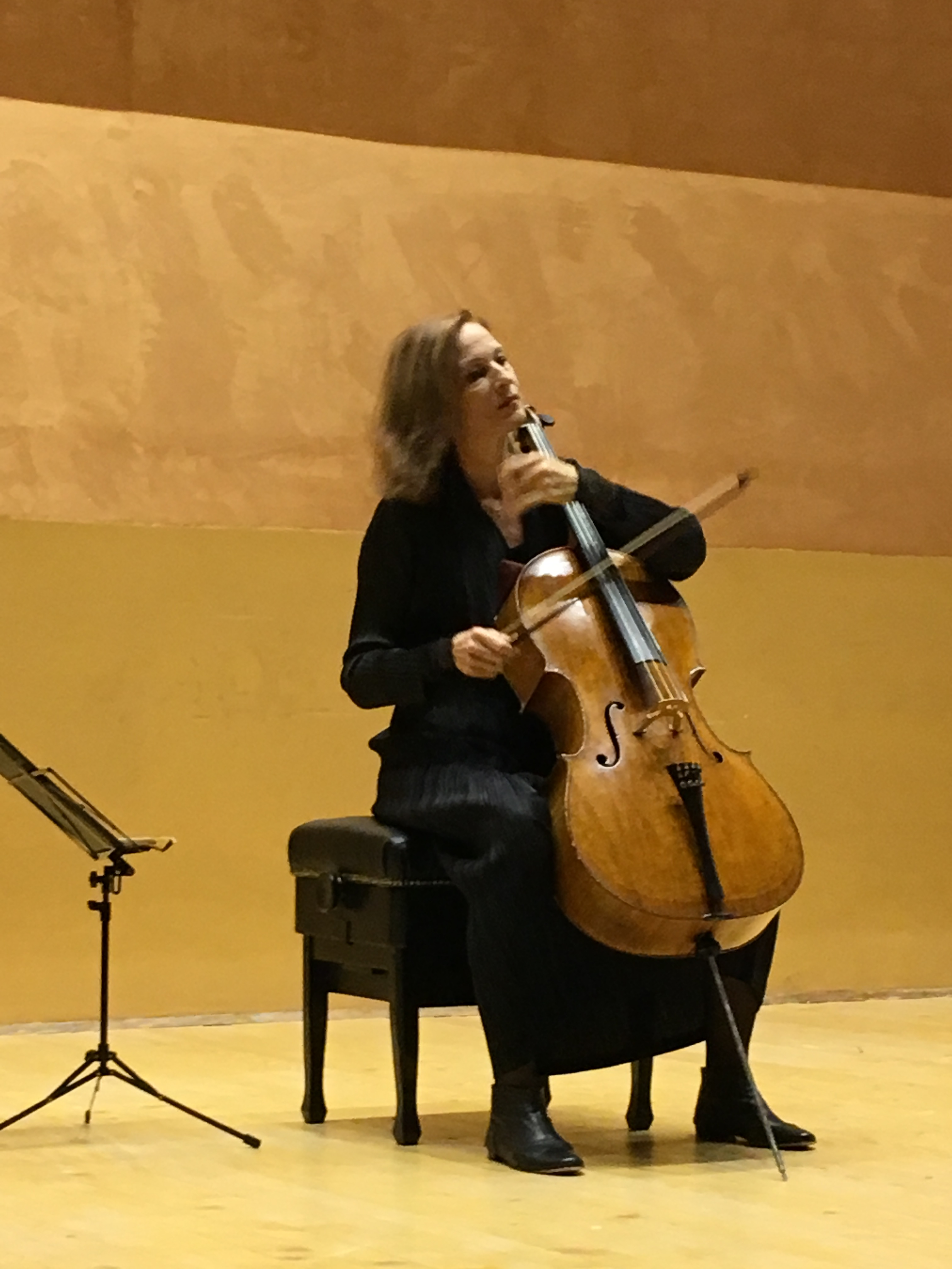 Anja Lechner - German cellist, composer, Bulgaria hall, Concert 15.01.2018, Sofia